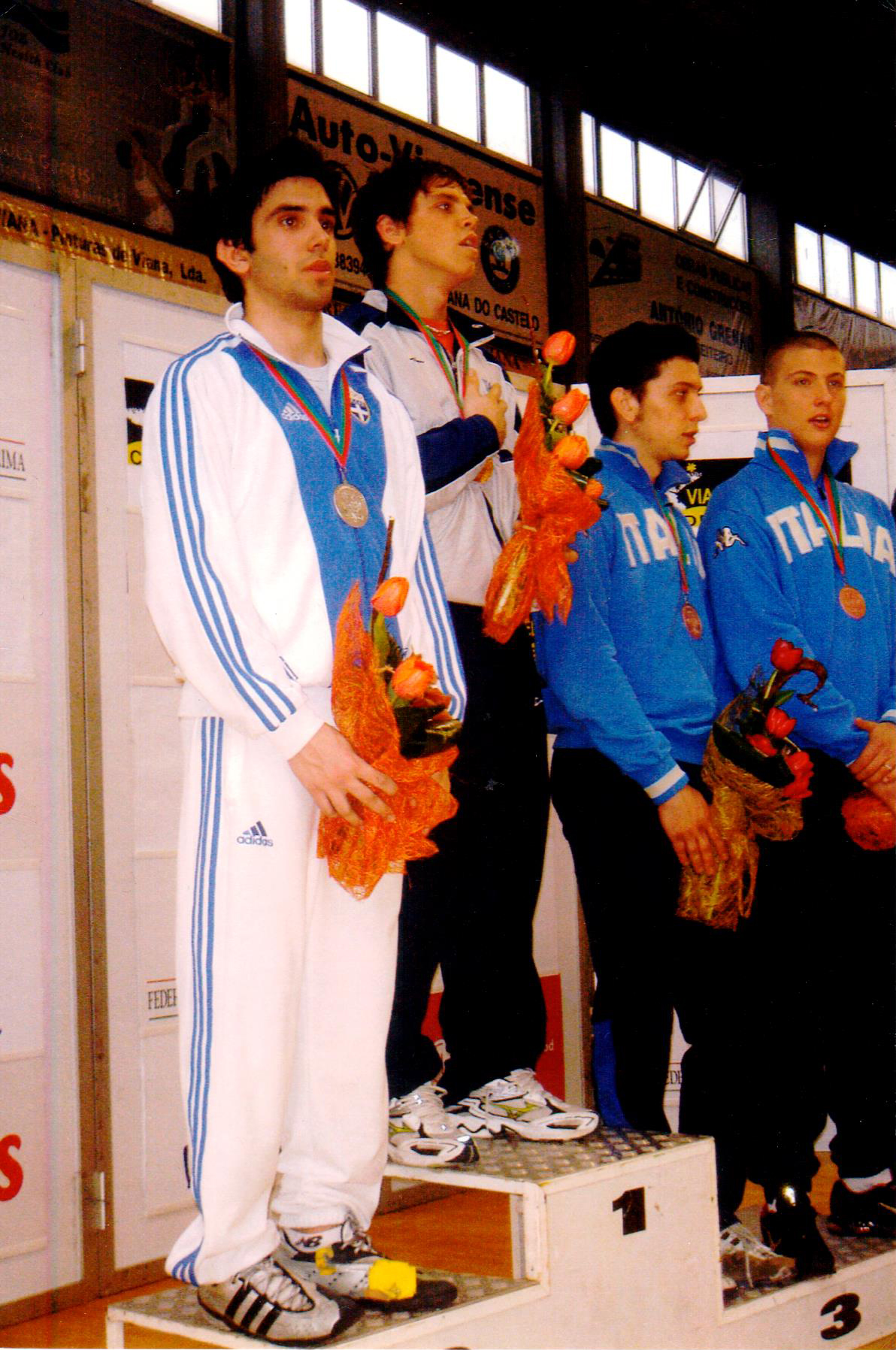 Ο πρωταθλητής Ελλάδος Γιωργος Καραπάνος!